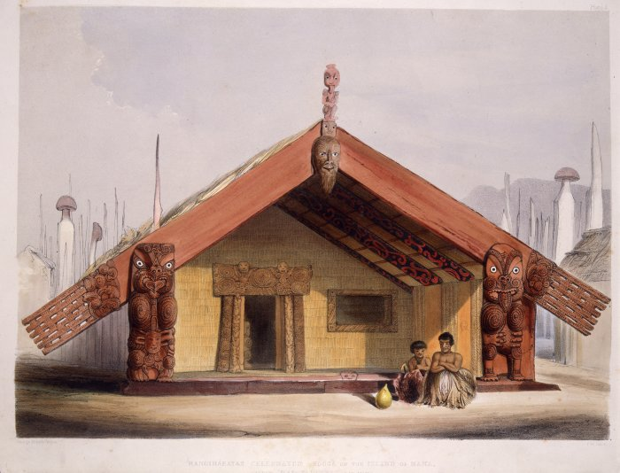 Rangihaeata's celebrated house on the island of Mana called "Kaitangata". Shows a carved meeting house, called a wharepuni or wharenui , Māori, New Zealand, 19th century